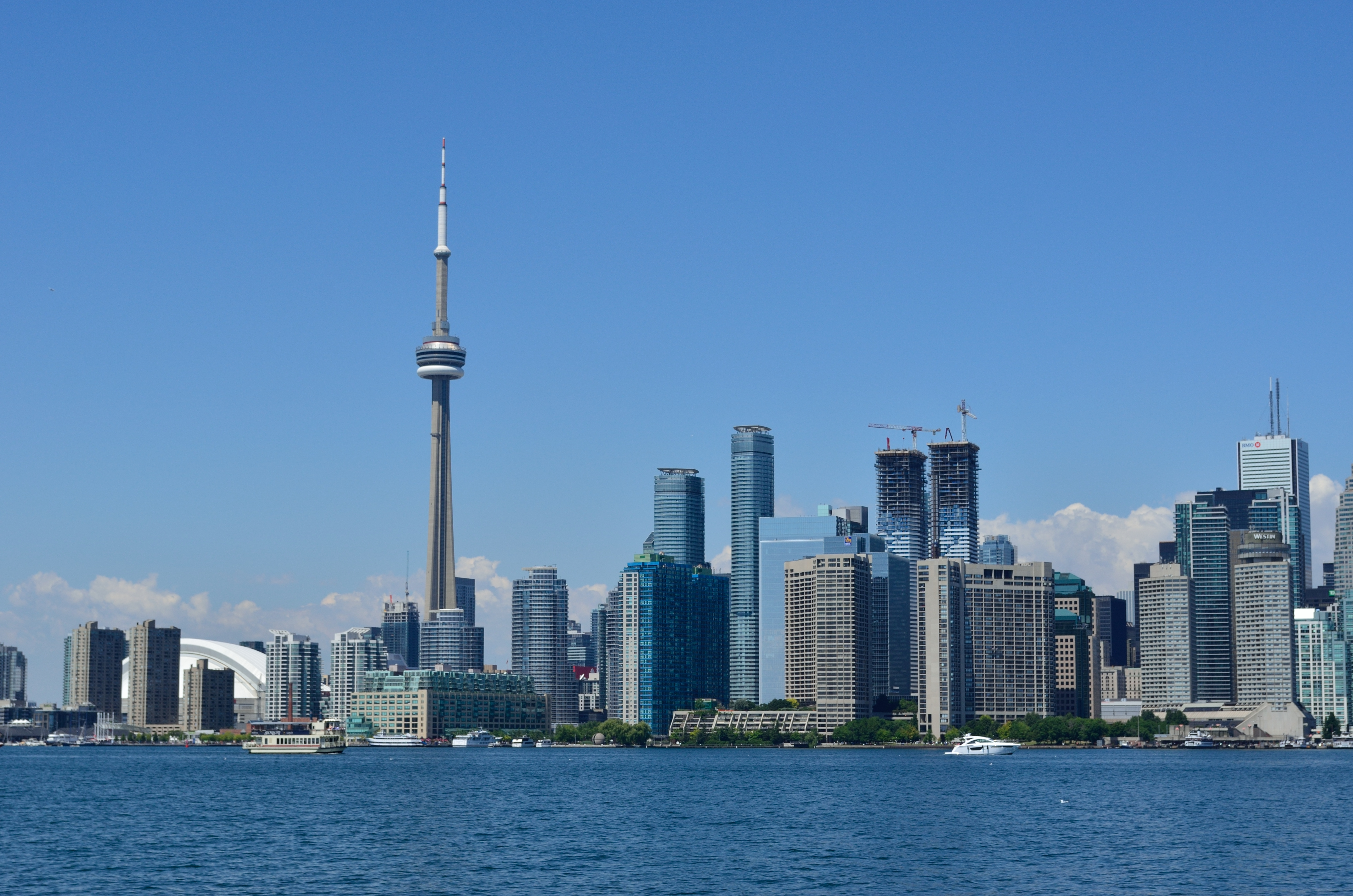 Skyline of Toronto